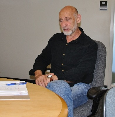 I took a picture of lenny so I could update his page